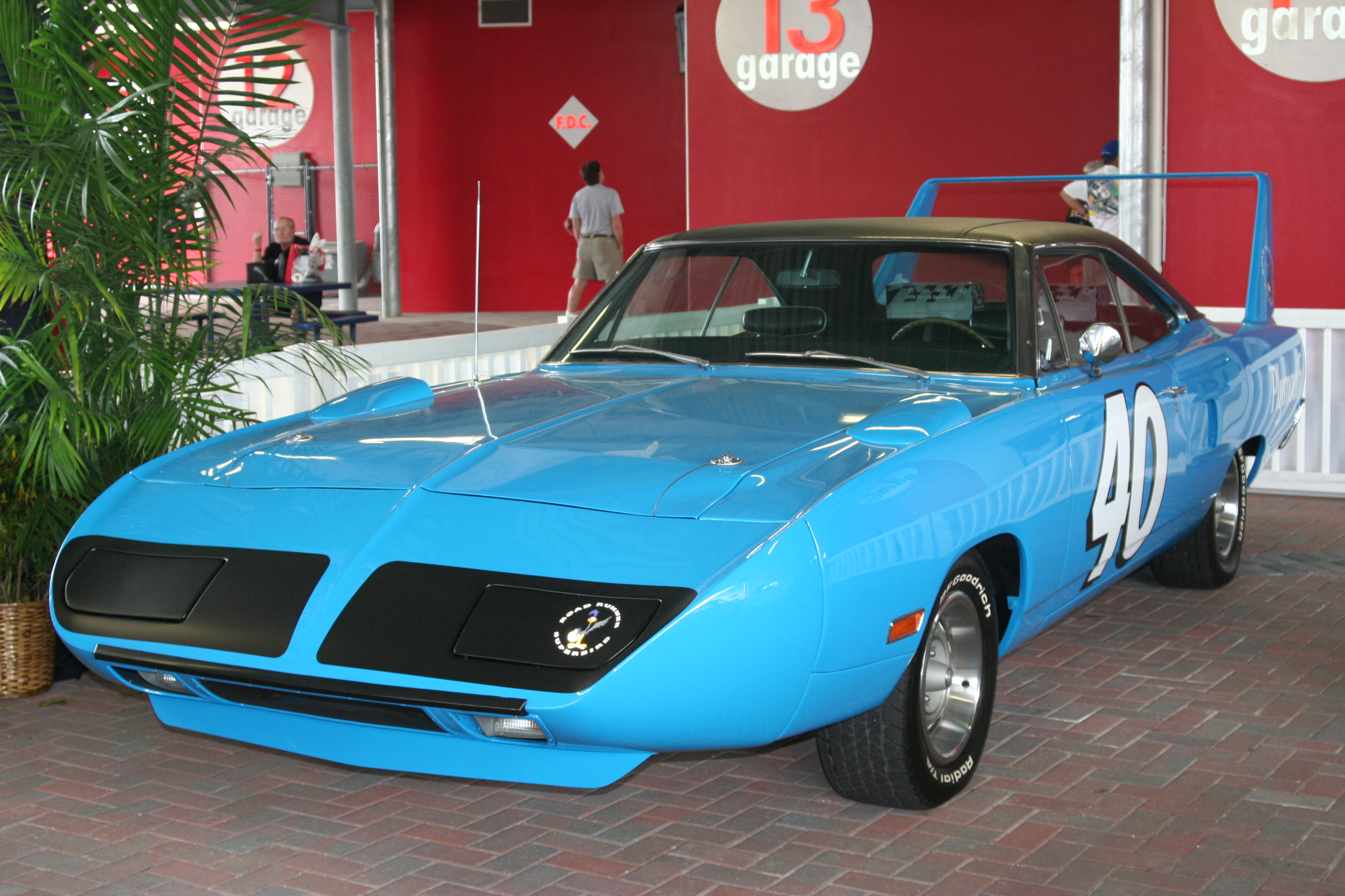 Shot by The Daredevil at Daytona during Speedweeks 2008